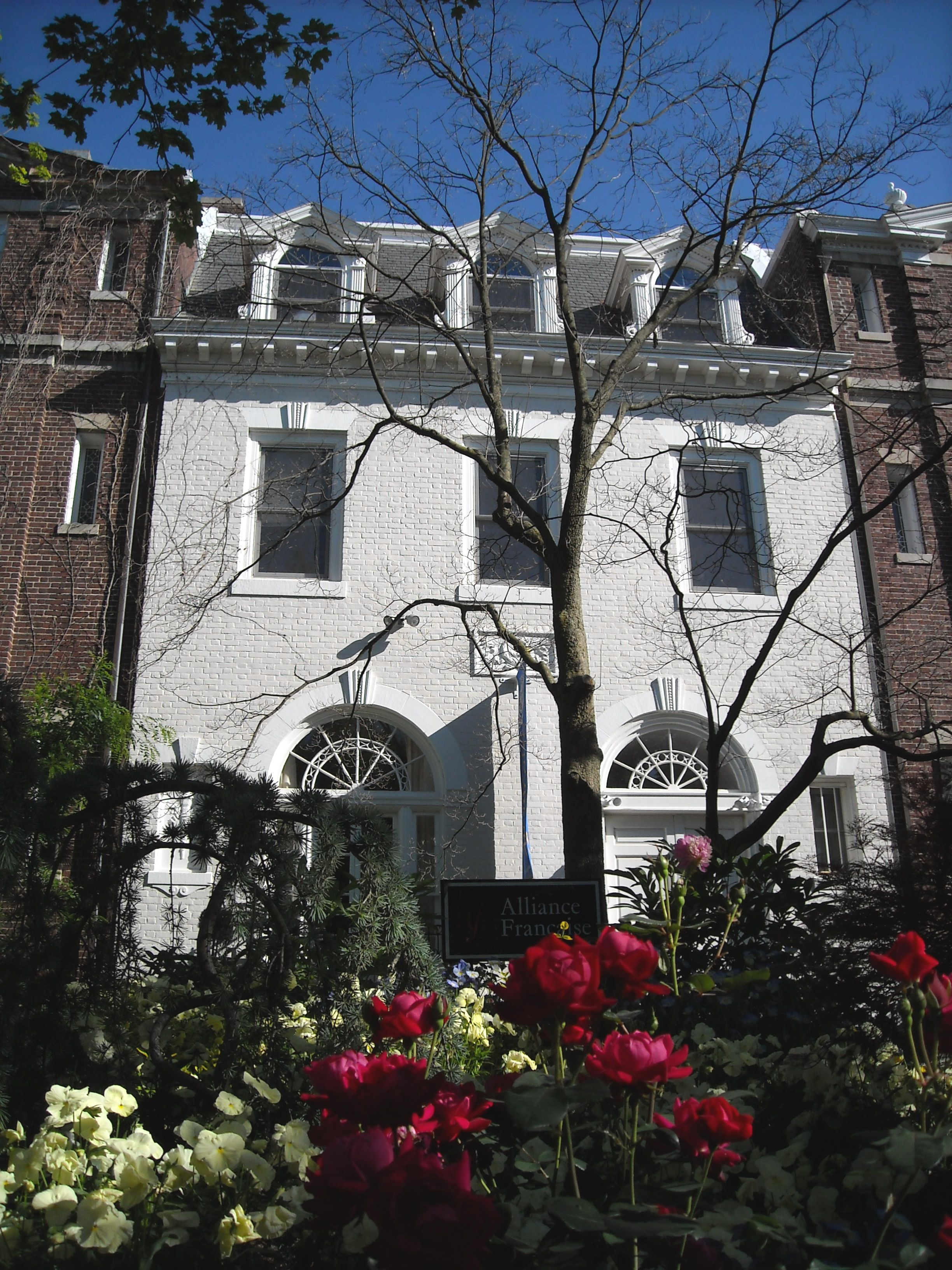 Alliance Française de Washington located at 2142 Wyoming Avenue, NW in the Sheridan-Kalorama neighborhood of Washington, D.C.